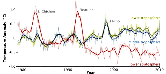 Temperature of atmospheric layers as determined by MSU (Microwave Sounding Unit) NASA satellites. El Chichón and Pinatubo were volcanic eruptions, while El Niño is a periodic event from ocean variability.